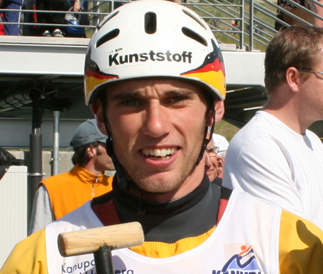 Jan Benzien at the Kanupark Markkleeberg, Olympic qualifier on May 4, 2008